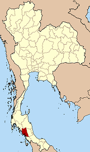 Map of Thailand highlighting Trang province